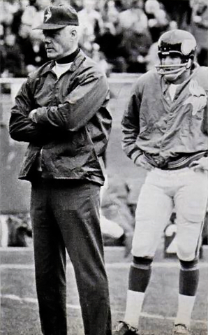 Former Minnesota Vikings head coach Bud Grant